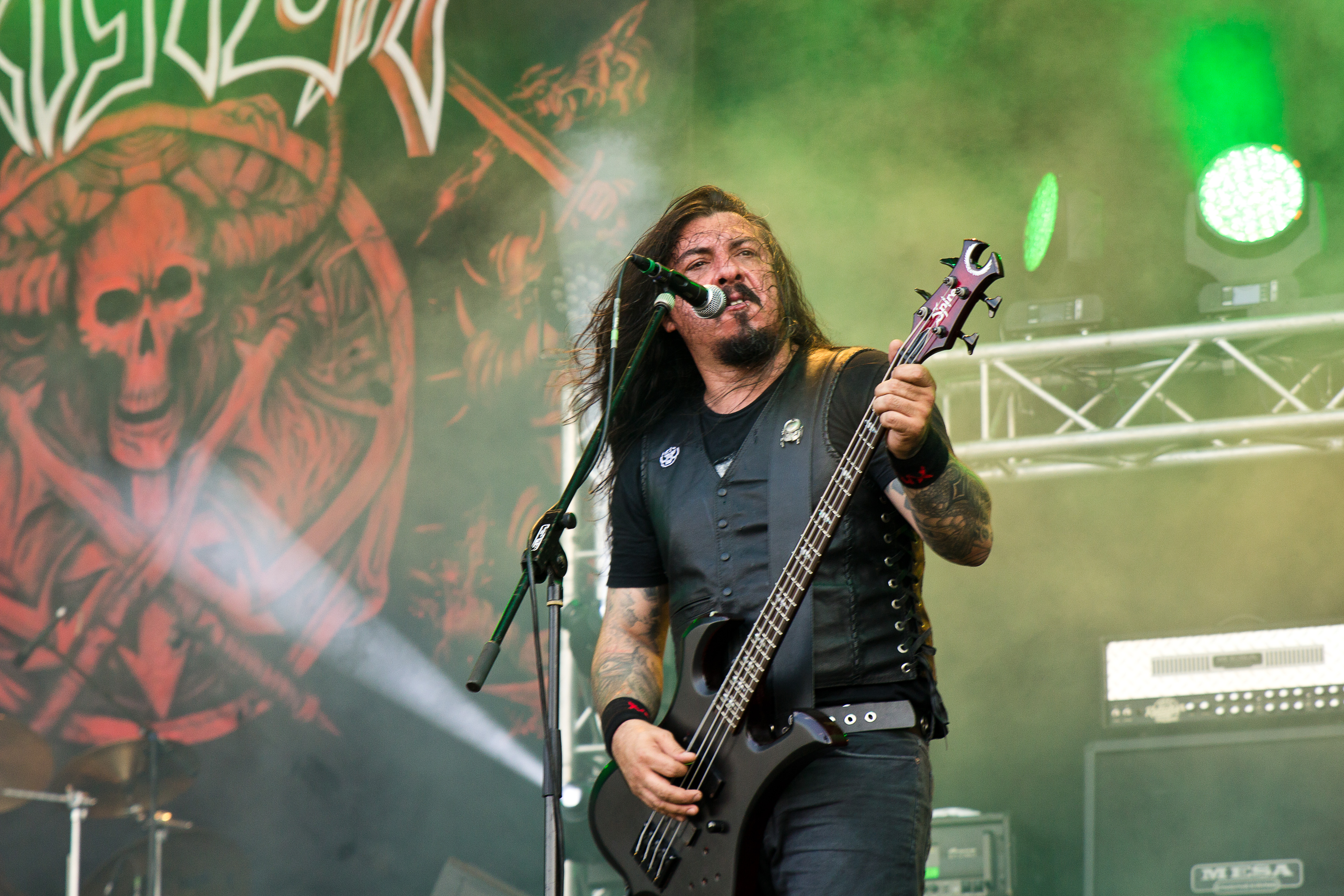 The Brasilian death metal band Krisiun at the Party.San Open Air 2015 in Obermehler-Schlotheim/Germany.